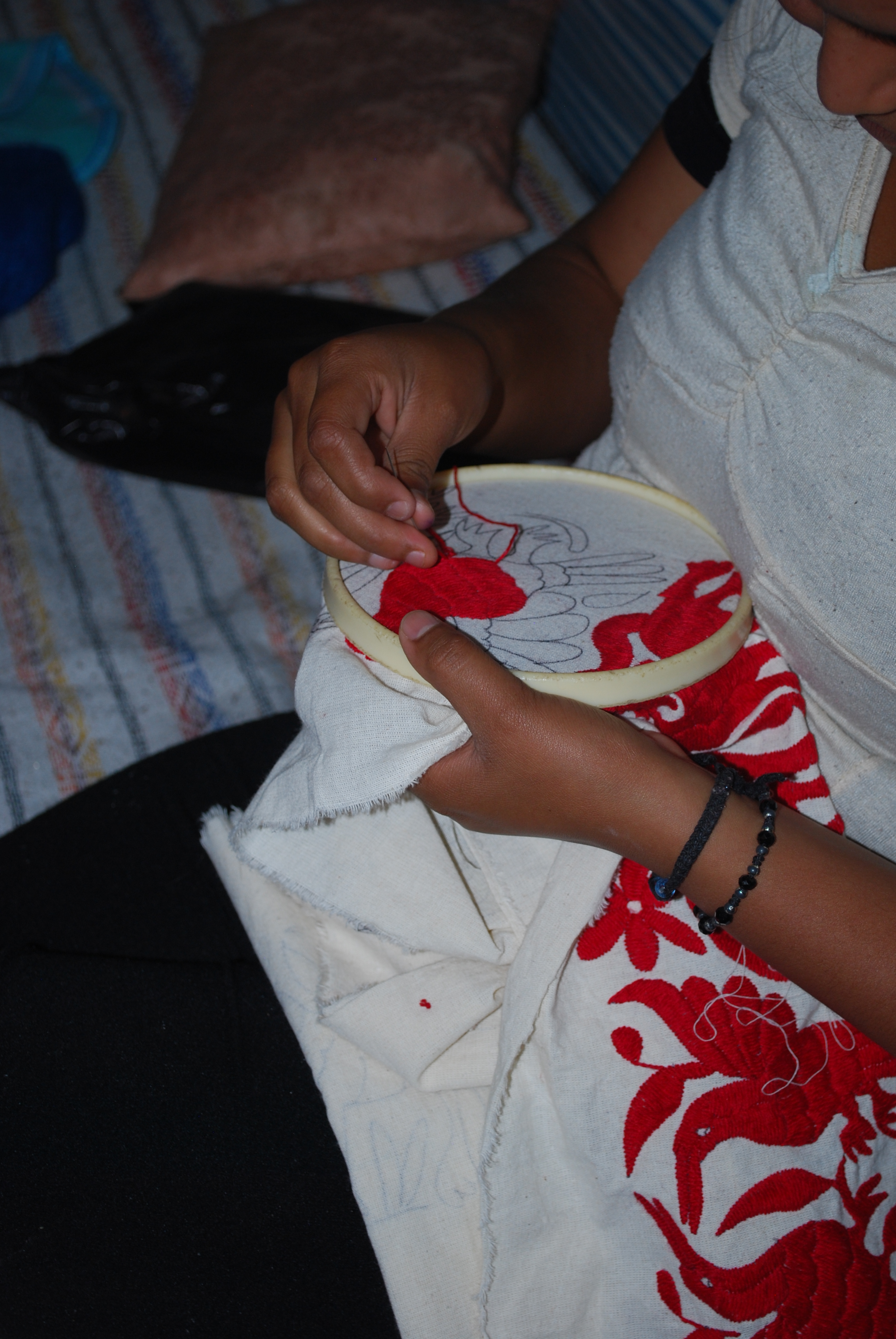 Daughter of artisan Elvira Clemente Gomez working on a Tenango embroidery piece at their home in Santa Monica, Tenango de Doria, Hidalgo, Mexico